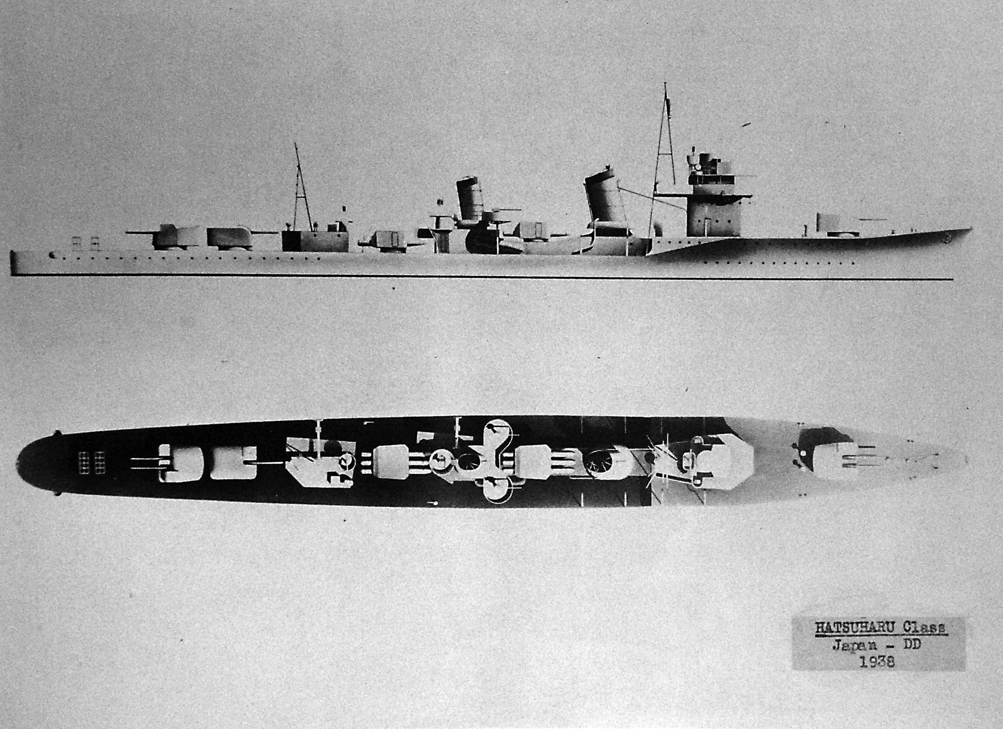 Lot-2406-30: Japanese destroyer Hatsuharu class, diagrams, 1938. Halftone copy from the files of the Department of Naval Intelligence, June 1943. Courtesy of the Library of Congress. (2016/05/12).